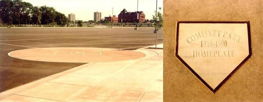 I took this photo of the site of Comiskey Park on September 4, 1992. The reddish buildings in the background are Machinery Hall and Main Building (left & right) at the Illinois Institute of Technology